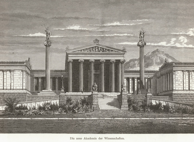 Amand Schweiger von Lerchenfeld. Griechenland in Wort und Bild, Eine Schilderung des hellenischen Konigreiches, Leipzig, Heinrich Schmidt & Carl Günther, 1887